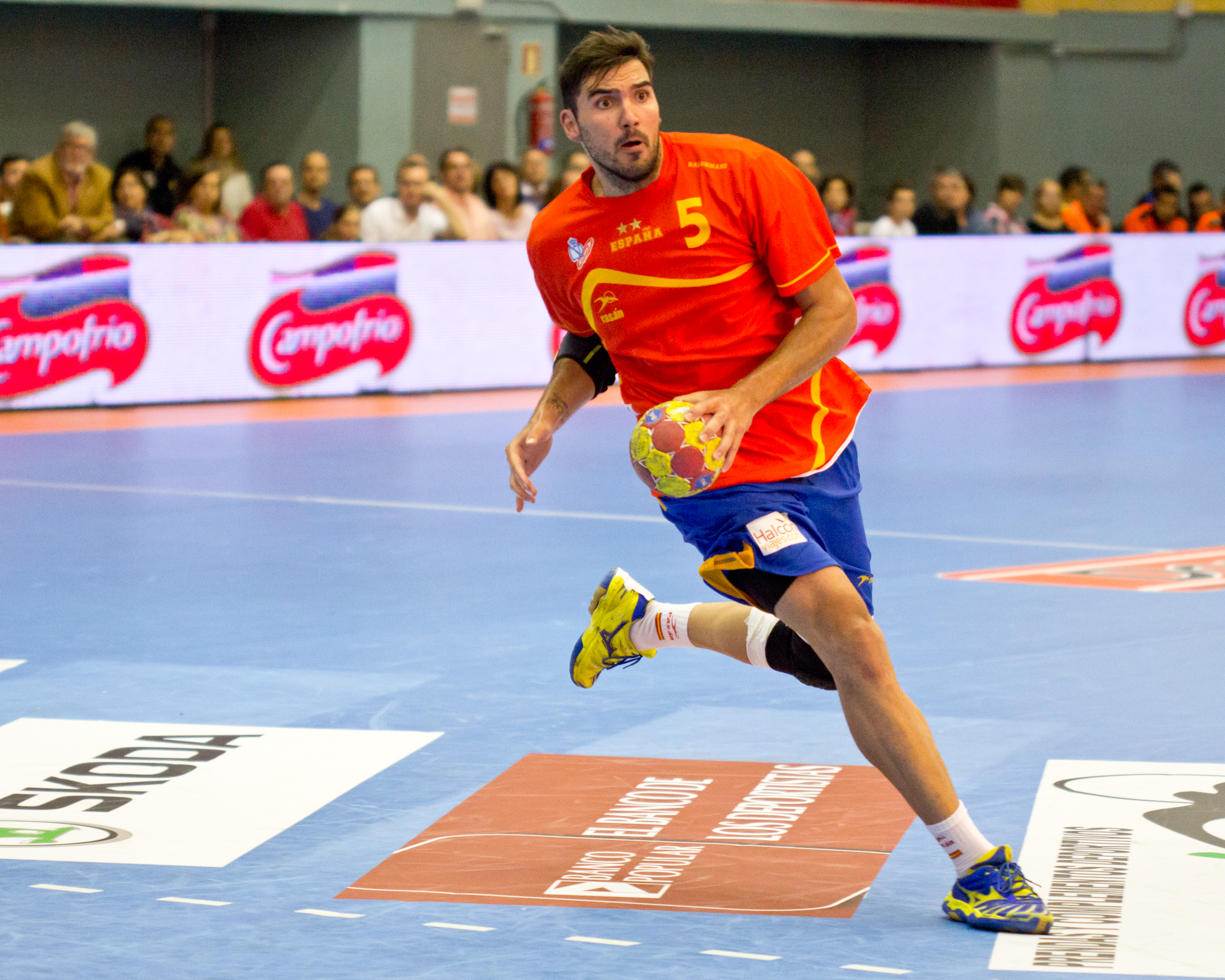 Spain Handball All Star Game 2013, held in San Sebastián de los Reyes, Madrid, Spain.